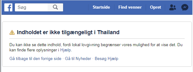 Facebook geoblock of content in Thailand. Text in Danish, saying in English "Content is not available in ThailandYou cannot view this content because local laws restrict our ability to view it. For more information, see Help."